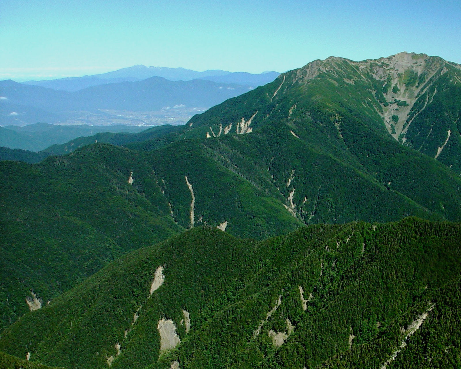 Mount Inaarakura (centre) and Mount Senjo (top right), with Mount Norikura in the background, seen from Mount Ai